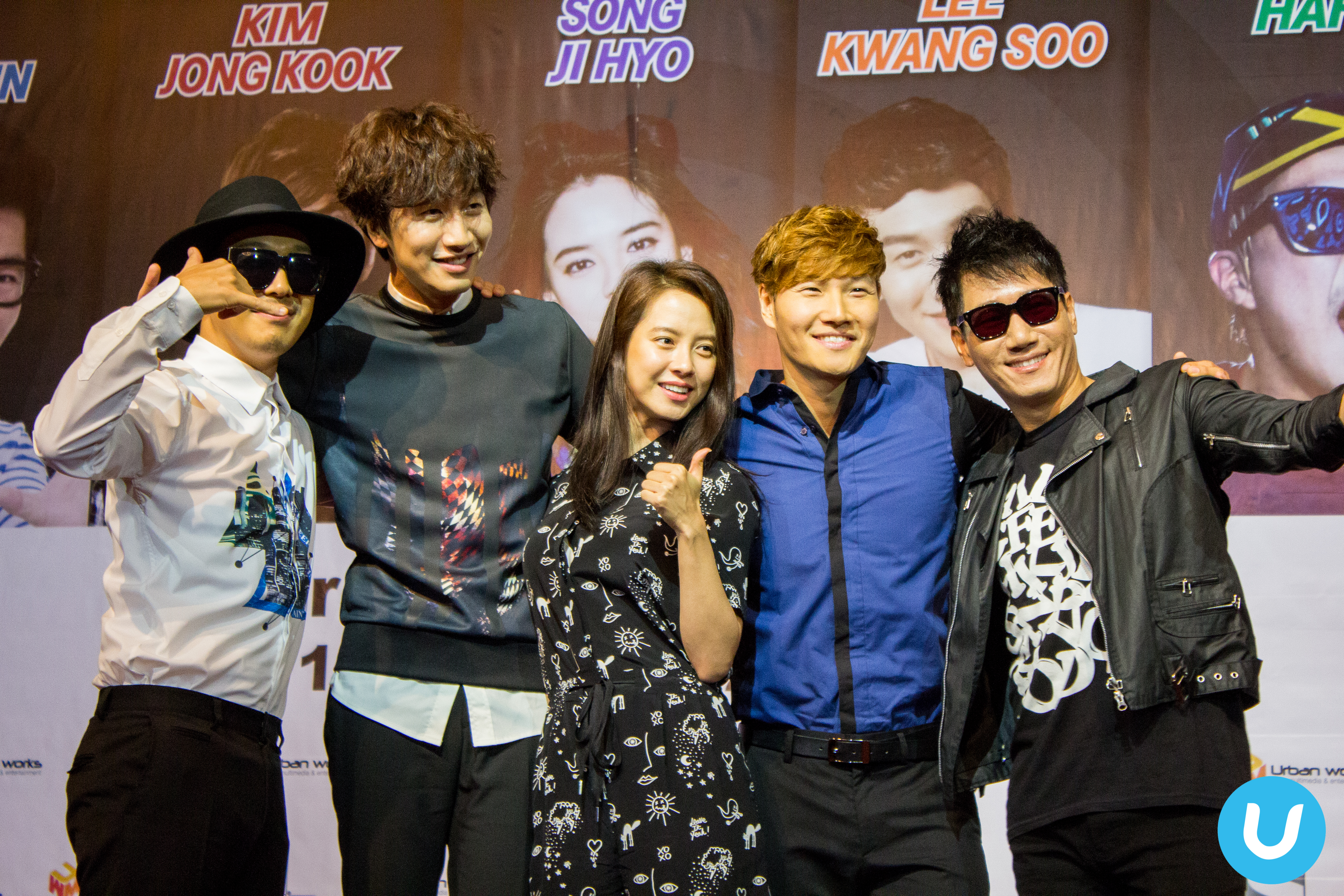 Running Man Cast at Malaysia for Fan Meeting Asia Tour 2014